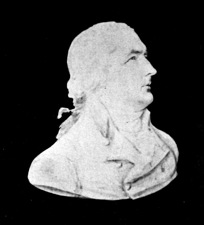 Profile view of James Dinwiddie (8 December 1746, Dumfries - 19 March 1815, Pentonville) from frontispiece of book